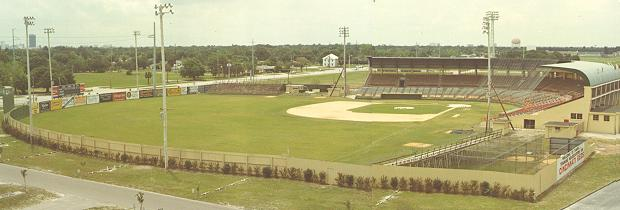 Al Lopez Field in the spring of 1979.